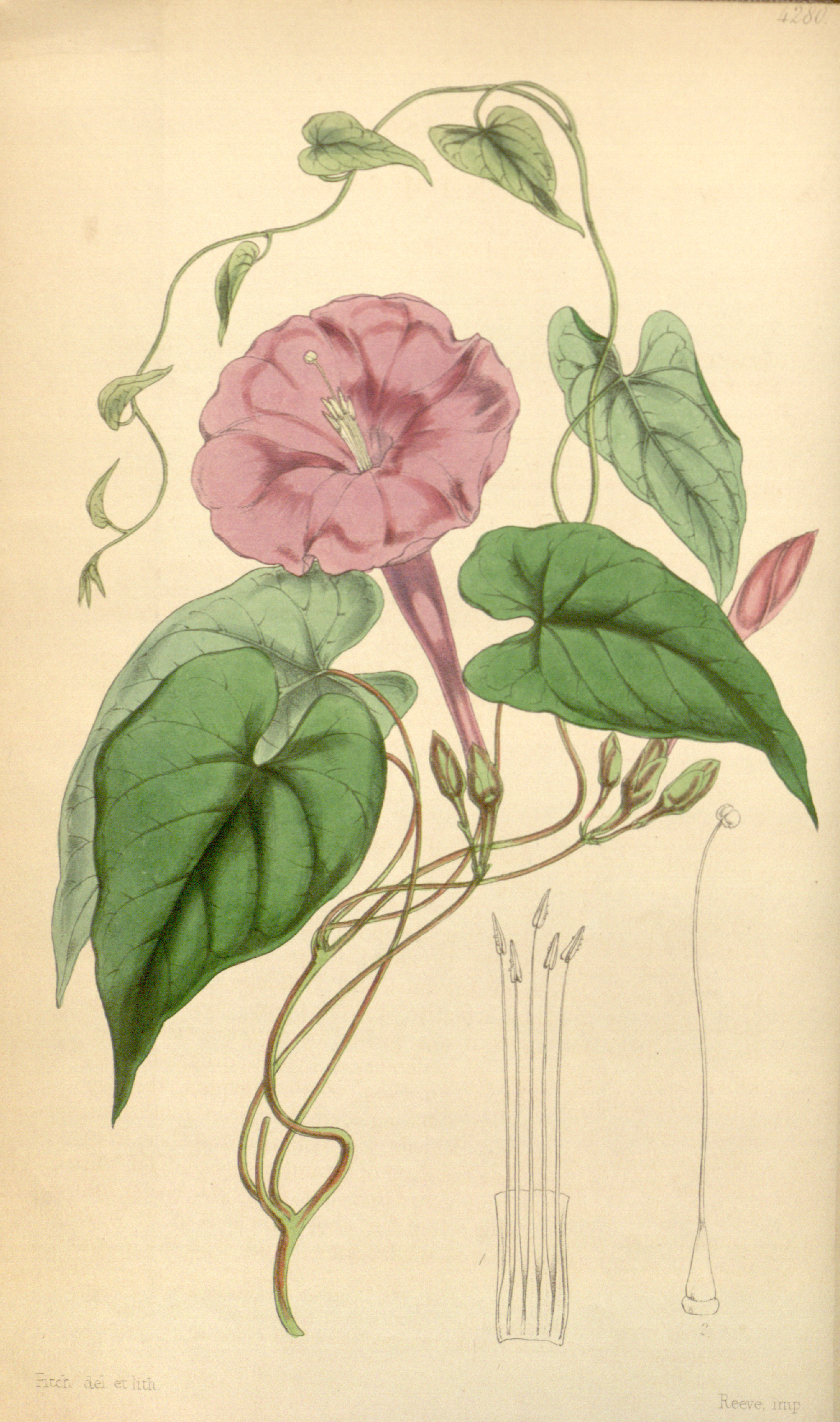 Ipomoea purga, as Exogonium purga. This is a plate from Curtis's Botanical Magazine, Volume 73.